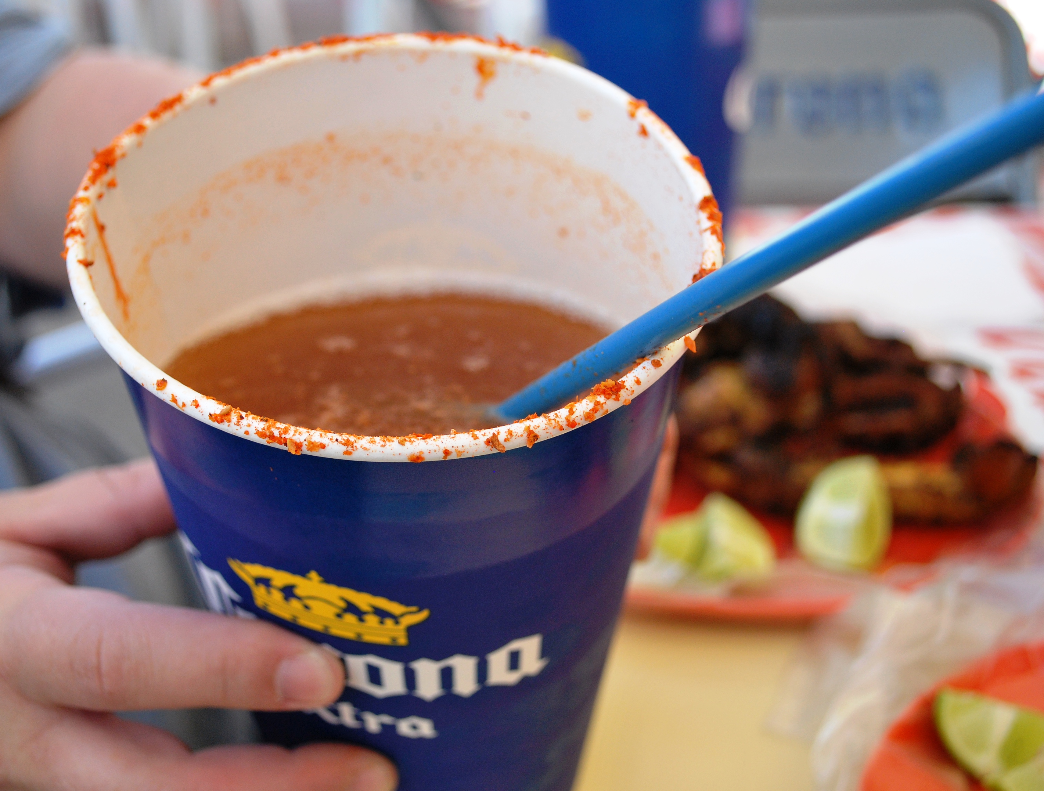 Michelada (beer with lime salt and chili) made with a "caguama" (a one liter bottle of beer) at the Feria de Hidalgo in Pachuca, Hidalgo